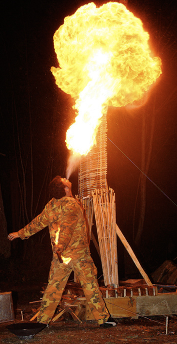 Breathing The Napalm Dragon's Breath The Fire Breather removes the torch or fuel source and continues to breath the flame.